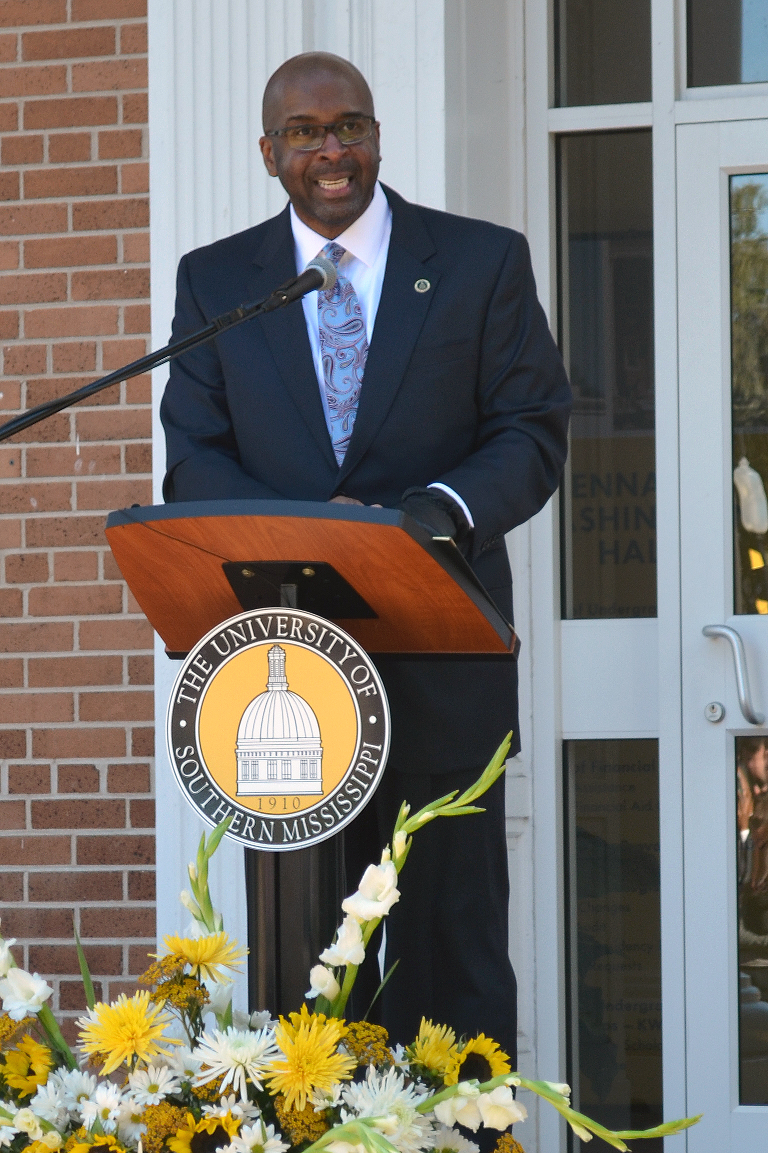 Rodney D. Bennett, President of the University of Southern Mississippi, at the Mississippi Freedom Trail Marker Unveiling on February 2, 2018.